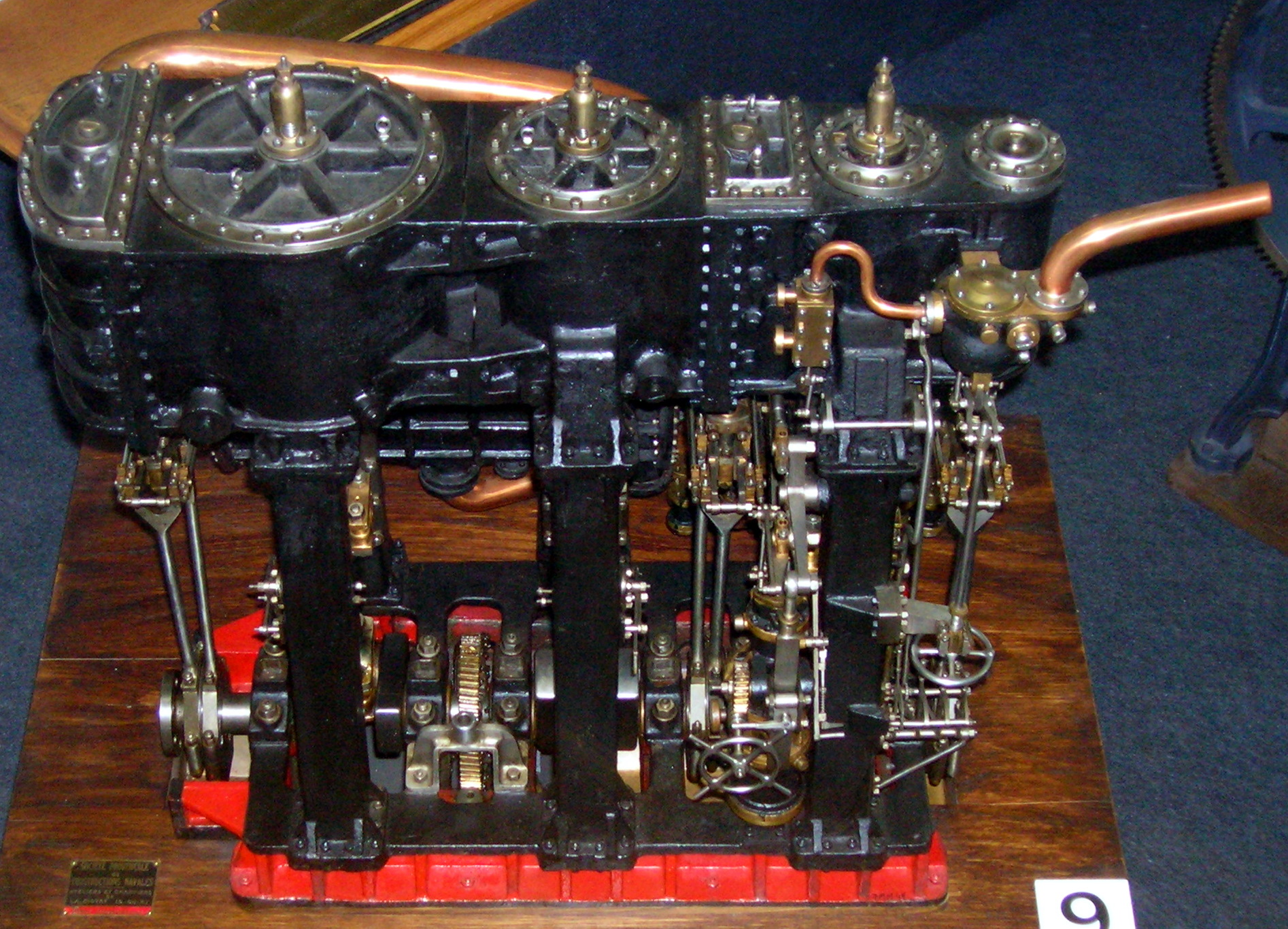 Model of a ship's engine, 1920.